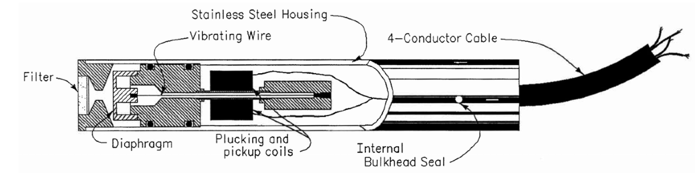 A vibrating wire piezometer from Figure 1 in USBR 6515, "Procedure For Using Piezometers to Monitor Water Pressure in a Rock Mass". Piezometer.-A vibrating wire piezometer, commonly used by Reclamation, is shown on figure 1. Its stainless steel housing nests the different components of the piezometer such as (1) the filter, (2) the diaphragm, (3) the vibrating wire, (4) the plucking and pickup coils, (5) the internal bulkhead seal, and (6) the cable connectors. The vibrating wire converts the fluid pressures into equivalentfrequencysignalsthatare then recorded. The piezometer pressure range could be 0.034 to 34.5 MPa (5 to 5,000 lbf/in2) with an accuracy of ±0.5 percent.